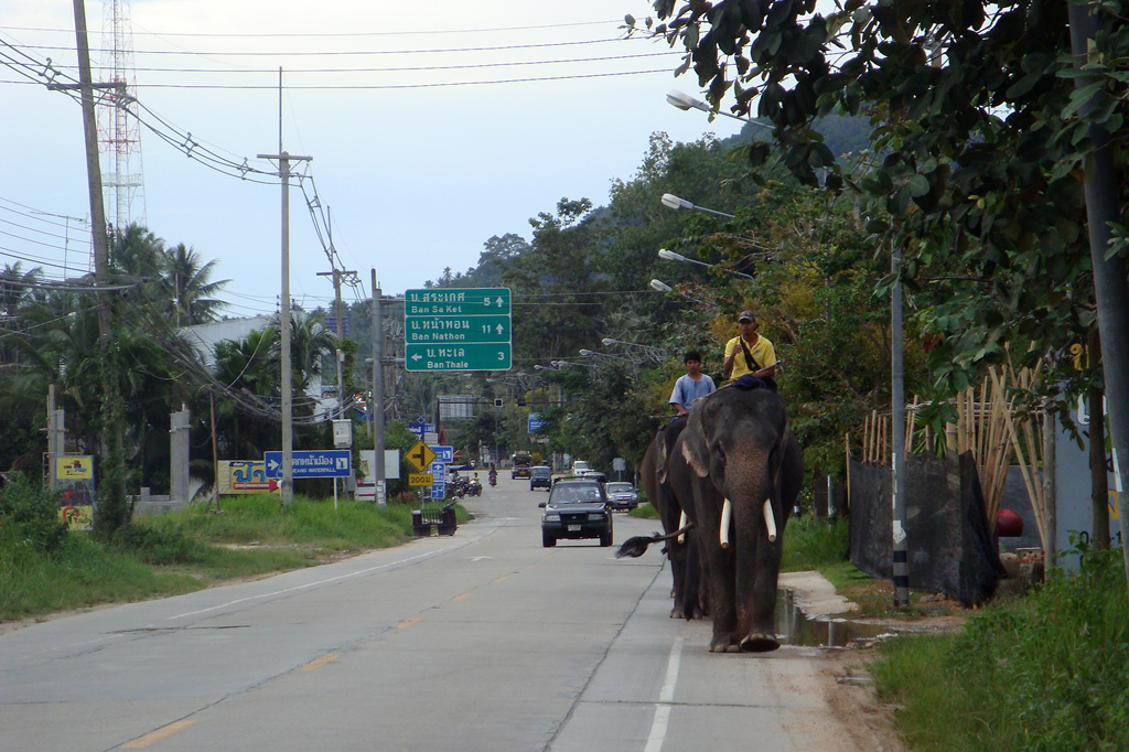 The »Ringroad« at southern part of Koh Samui, close to the Namuang waterfalls. Thailand.